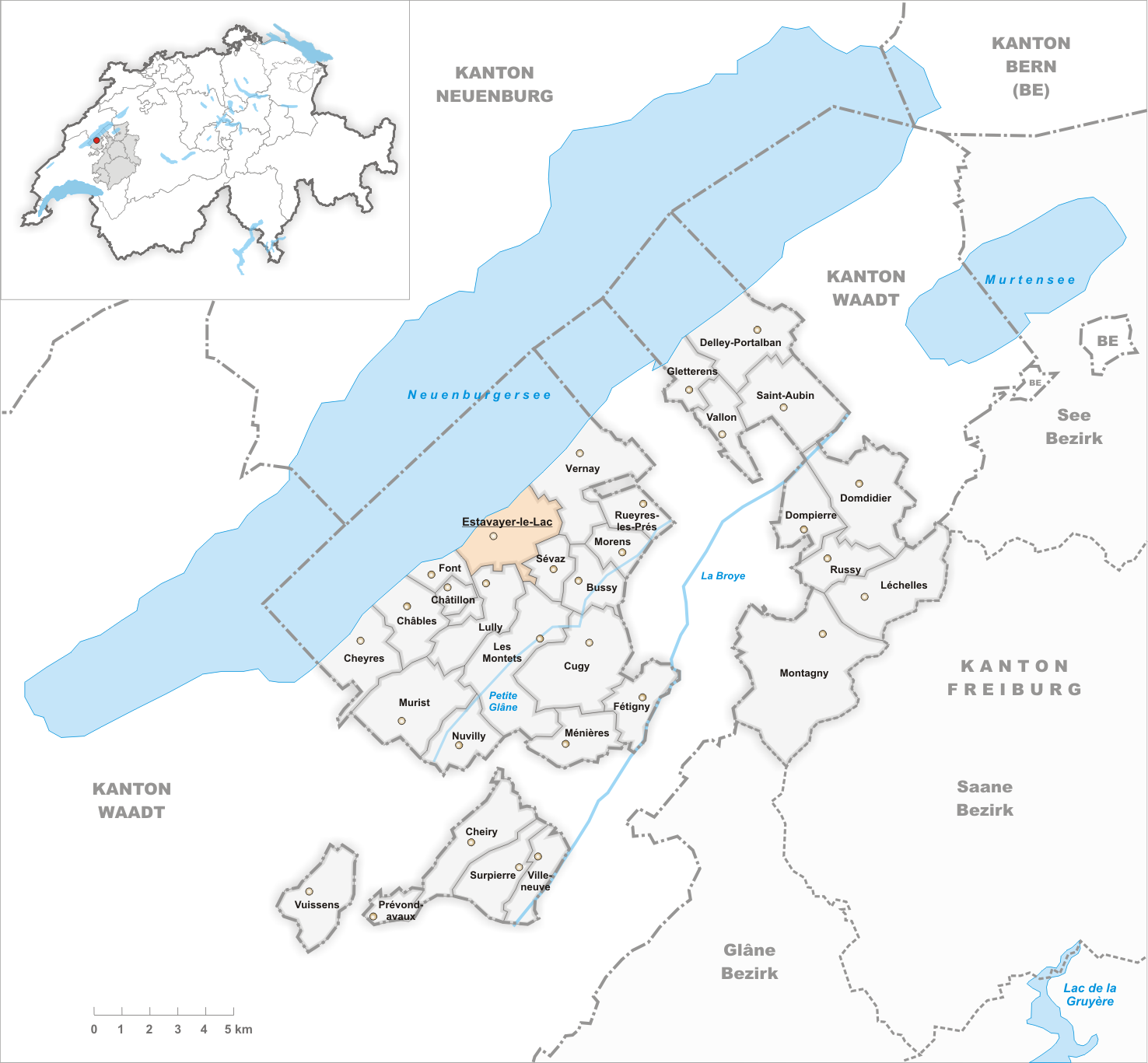 Municipality Estavayer-le-Lac